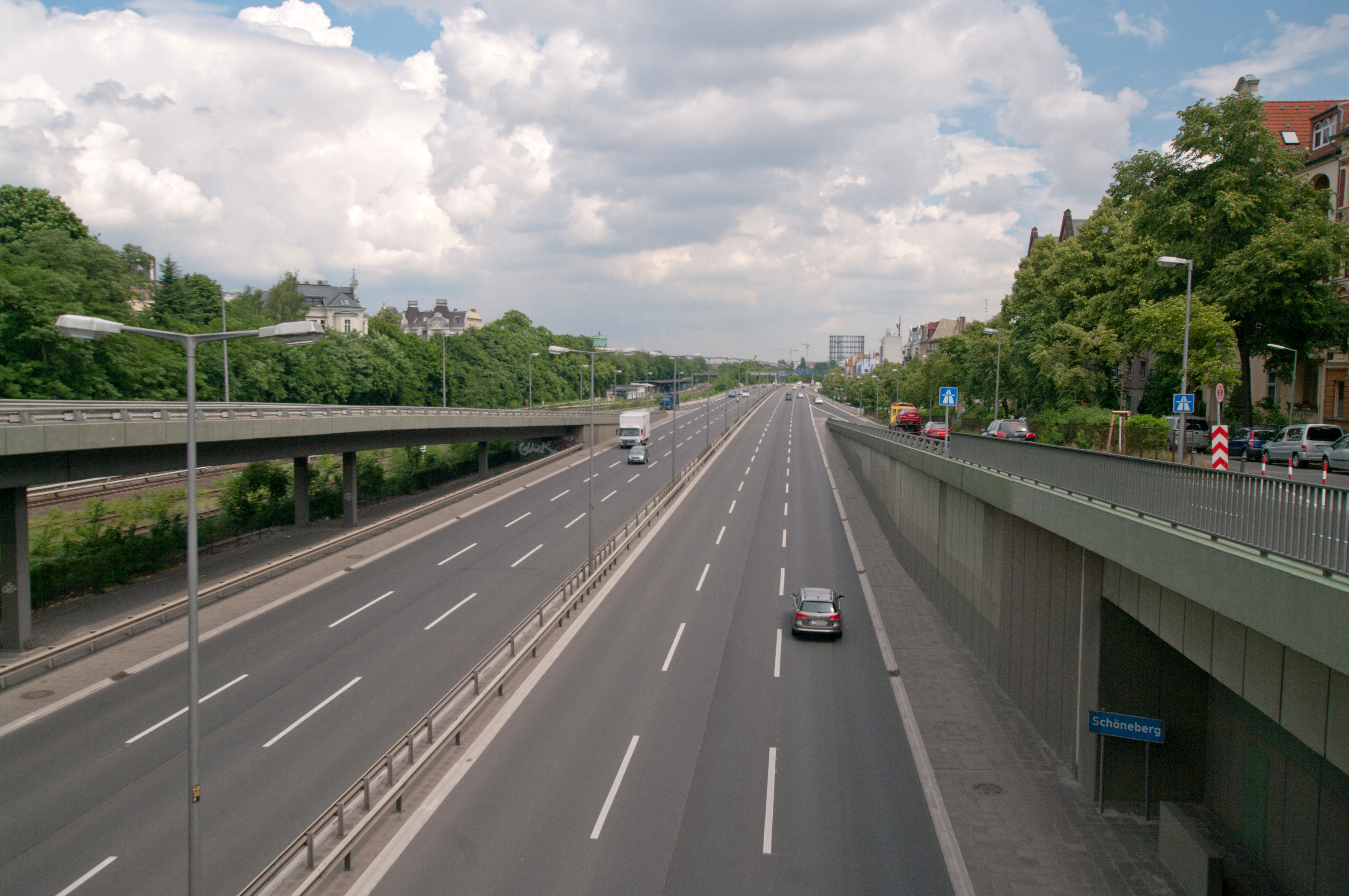 Autobahn 103 in Berlin-Steglitz